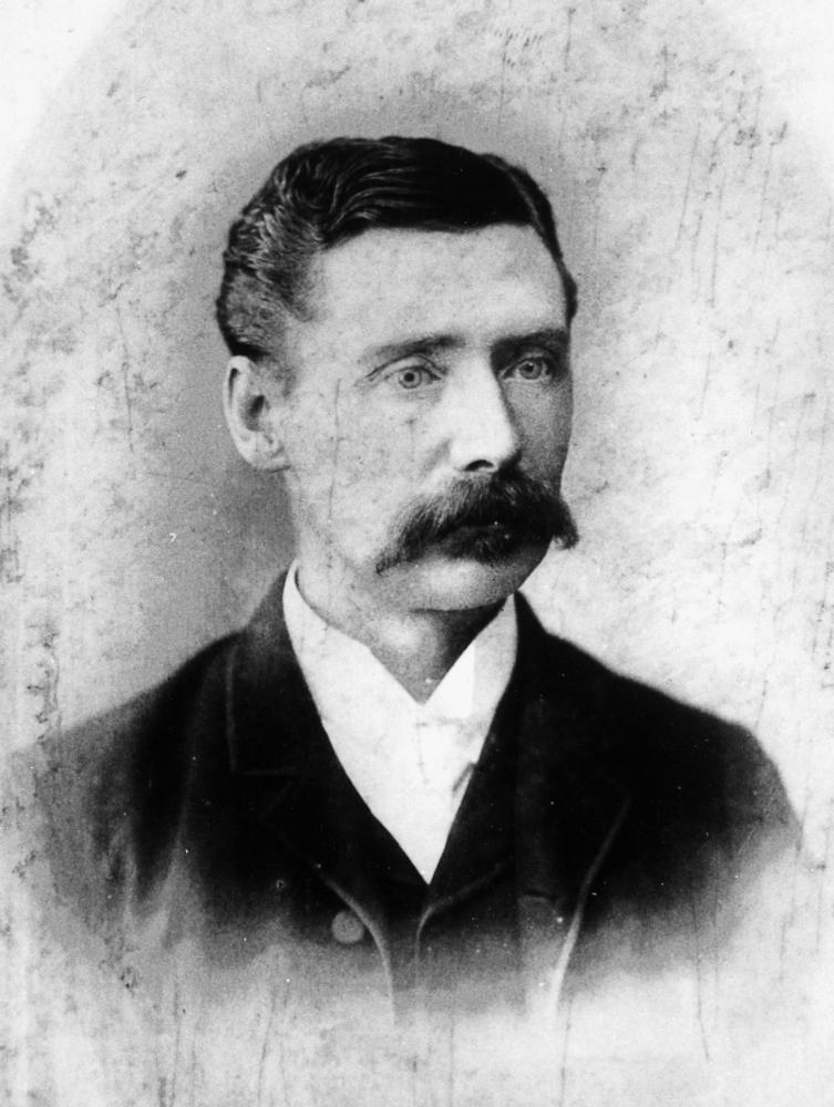 Hon. James George Drake